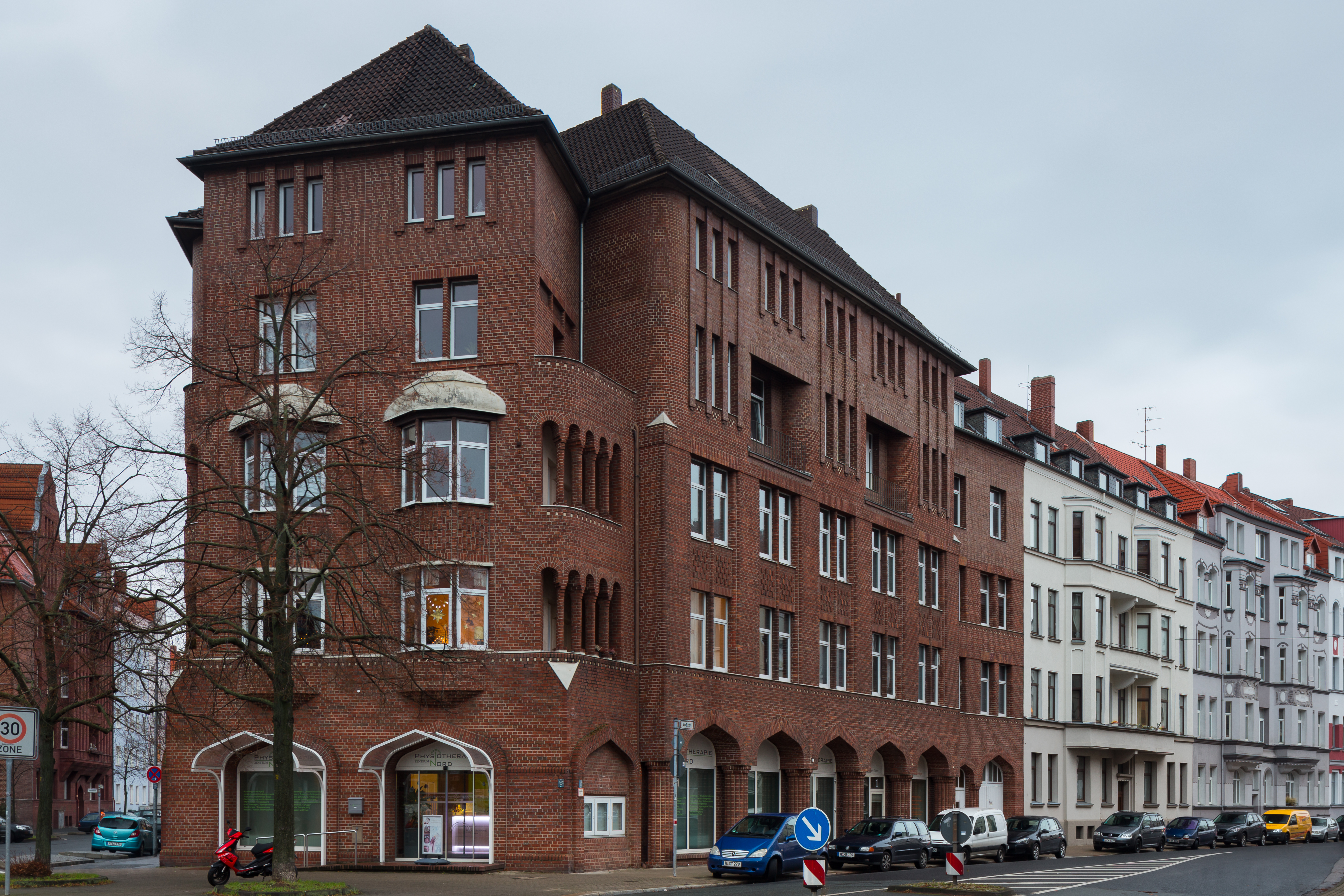 Apartment house located at Vossstrasse no. 1 and Isernhagener Strasse in Vahrenwald district of Hannover, Germany.